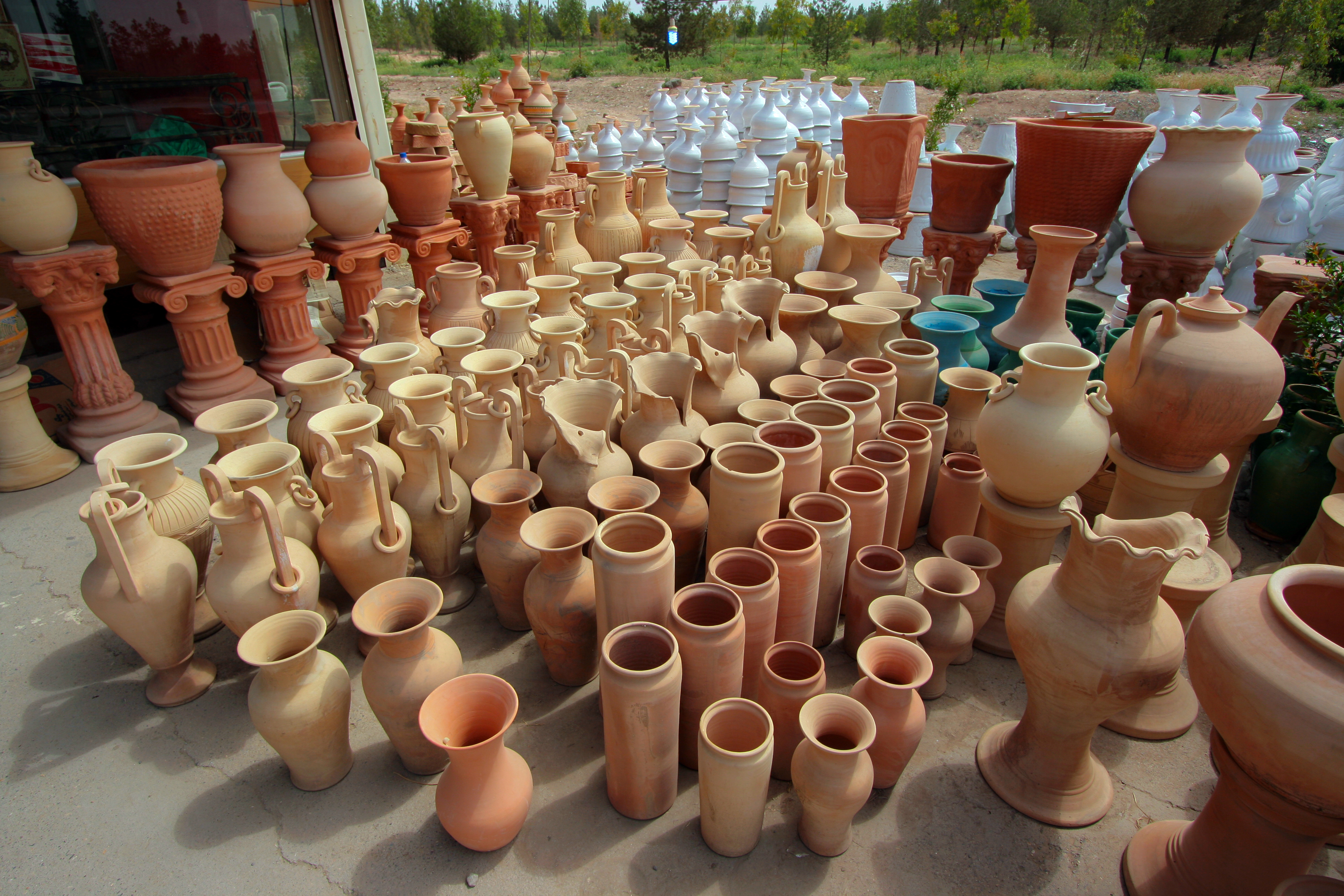 A handicraft, sometimes more precisely expressed as artisanal handicraft or handmade, is any of a wide variety of types of work where useful and decorative objects are made completely by hand or by using only simple tools. It is a traditional main sector of craft, and applies to a wide range of creative and design activities that are related to making things with one's hands and skill, including work with textiles, moldable and rigid materials, paper, plant fibers, etc. One of the world's oldest handicraft is Dhokra; this is a sort of metal casting has been used in India for over 4,000 years and is still used. Usually the term is applied to traditional techniques of creating items (whether for personal use or as products) that are both practical and aesthetic.Handicraft industries are those that produces things with hands to meet the needs of the people in their locality.Machines are not used.